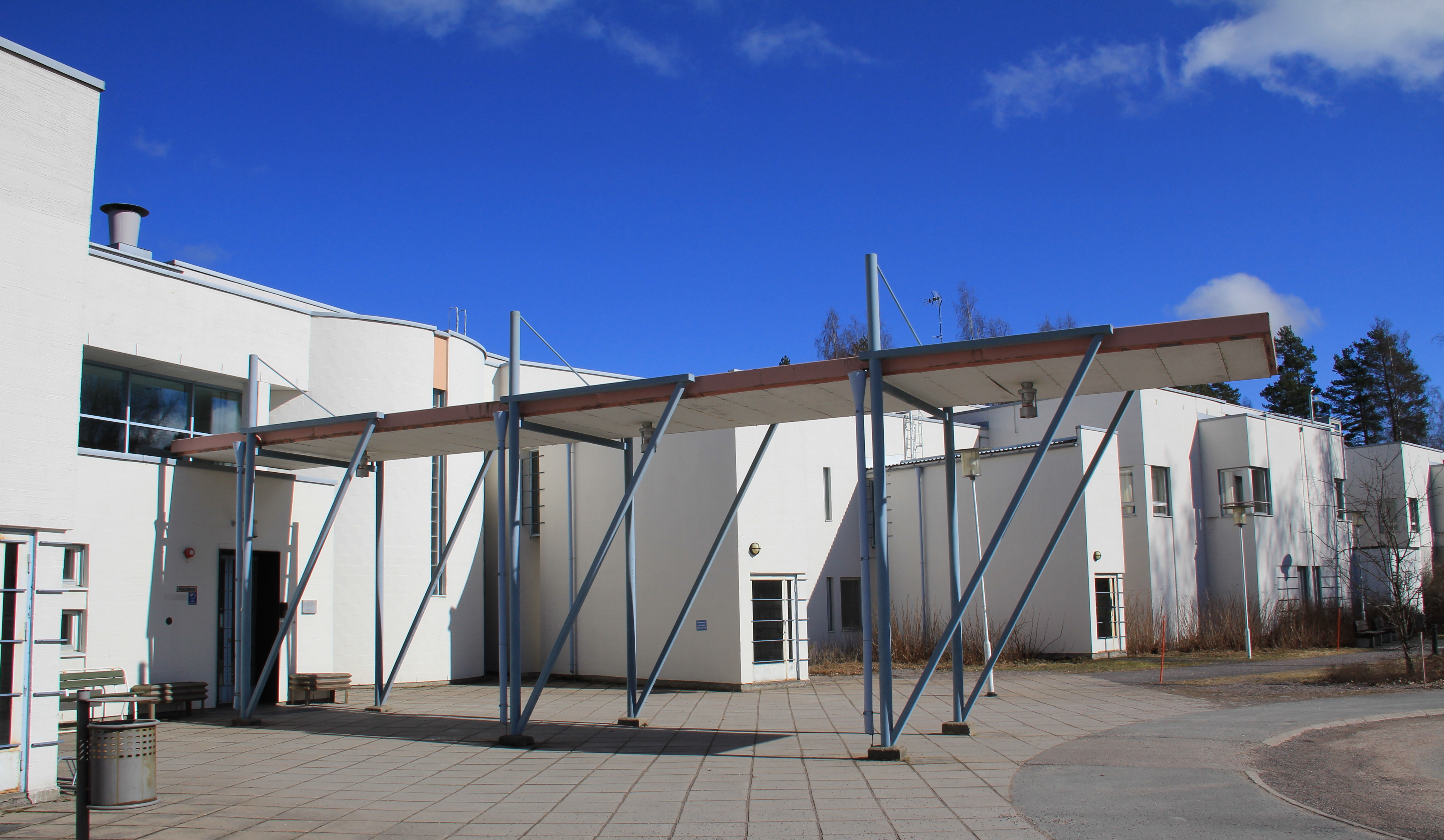 Lehtimajat, Hausjärvi health centre and old folk's home, Oitti, Hausjärvi, Finland. Completed in 1991, designed by 8 Studio Architects Ltd, architects Mikko Kaira, Pen Kareoja, Ilmari Lahdelma, Juha Luoma, Rainer Mahlamäki & Markus Seppänen.